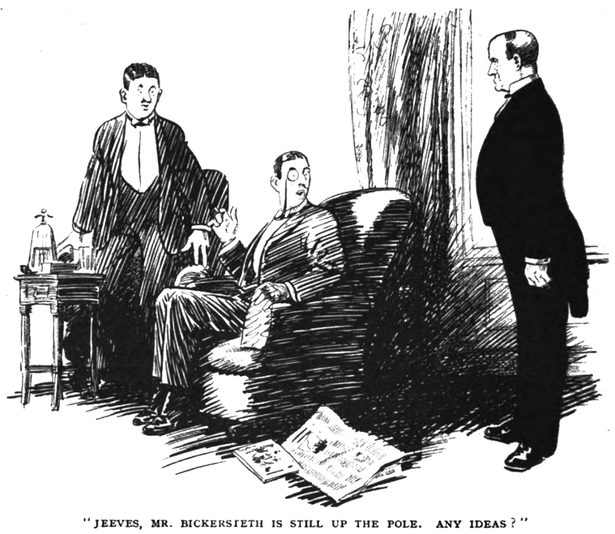 Strand Magazine illustration by Alfred Leete of the Jeeves short story "Jeeves and the Hard-boiled Egg" by P. G. Wodehouse